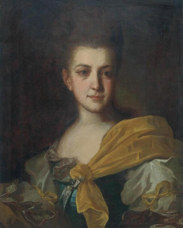 Countess Ekaterina Alelseevna Musina-Pushkina (1754–1829) was a member of the Russian nobility, the second daughter of Prince Aleksey Nikitich Volkonsky (?–1781) and Margarita Rodionovna Volkonskaya, née Kosheleva (?–1790), the wife of Count Aleksei Ivanovich Musin-Pushkin (1744–1817).